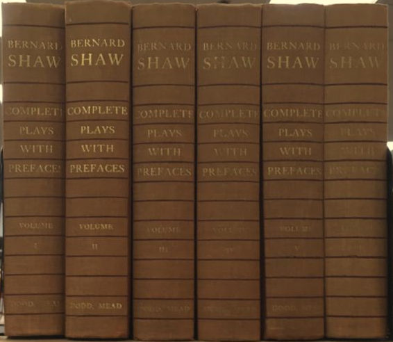 6 volume set of the complete plays of Shaw, showing spines